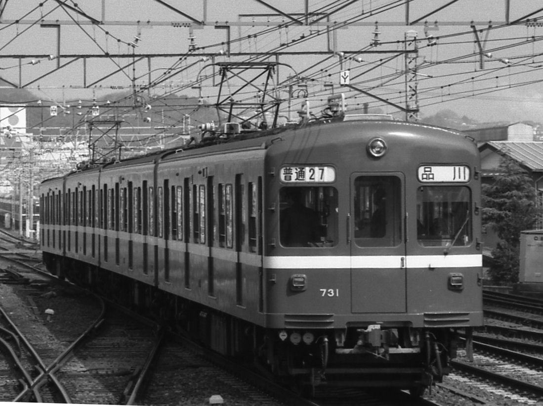 Keikyu 731 at Kanazawa Hakkei